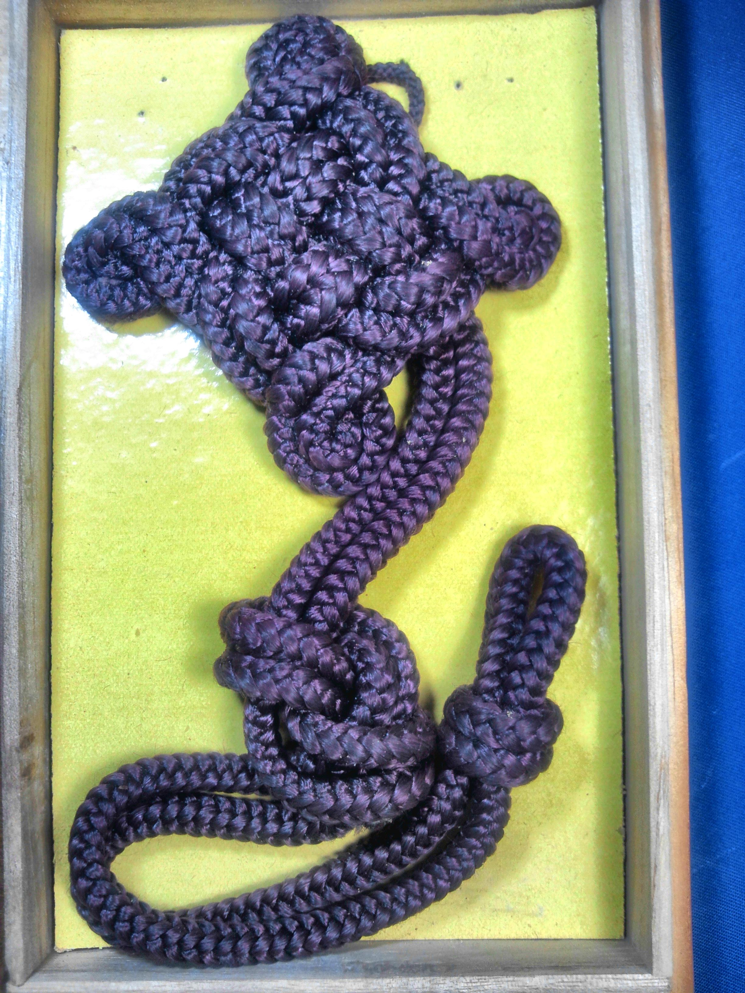 Aiguillette of Kokumin-Fuku (National Uniform for Japanese males during 1940-1945).